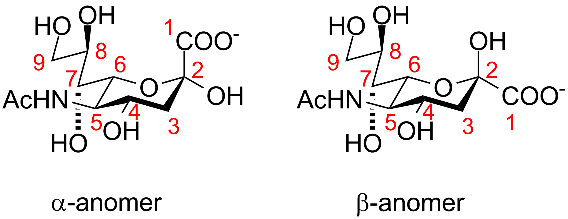 Anomeric configurations of Neu5Ac and numbering scheme.